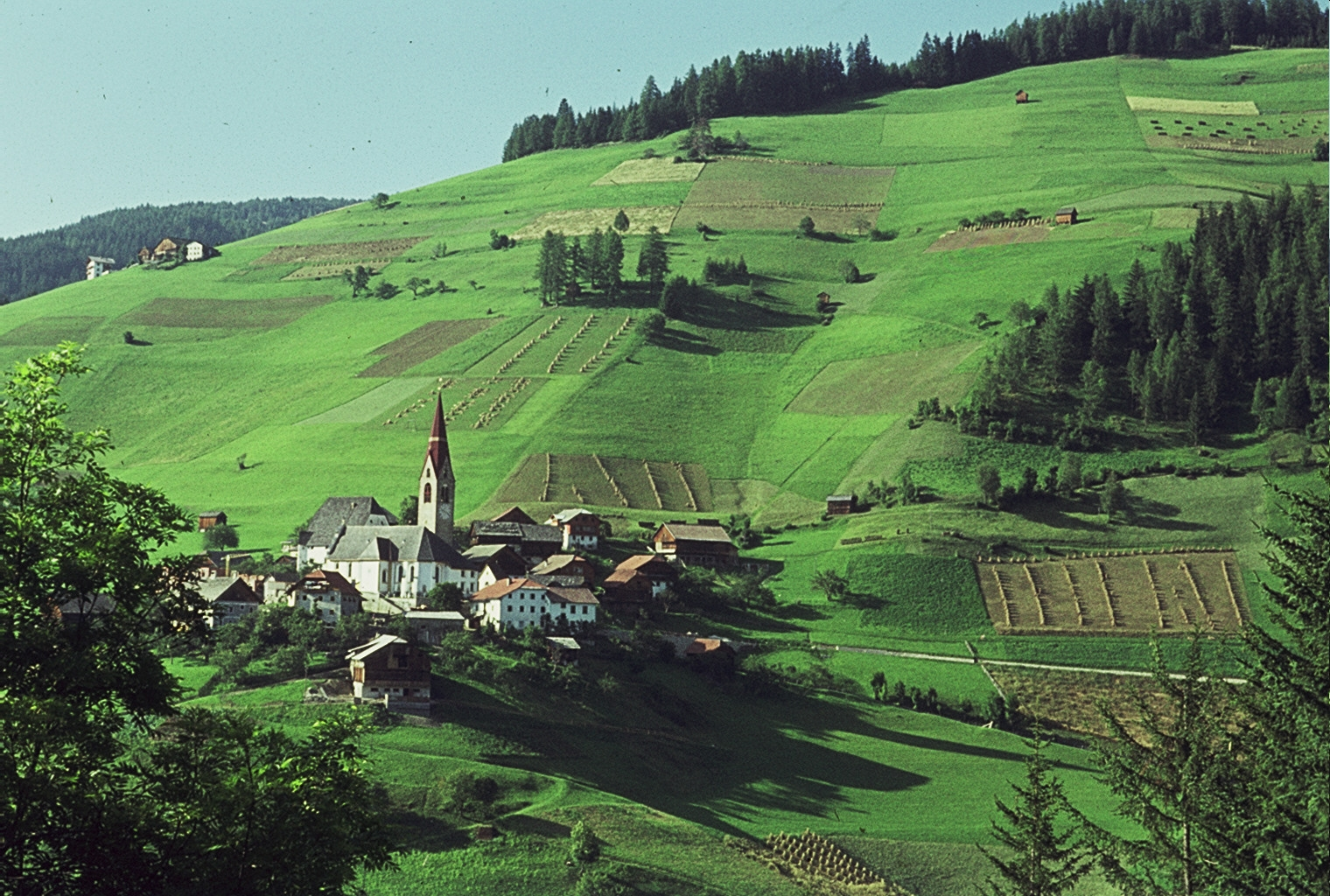 La Pli de Mareo , village in South Tyrol